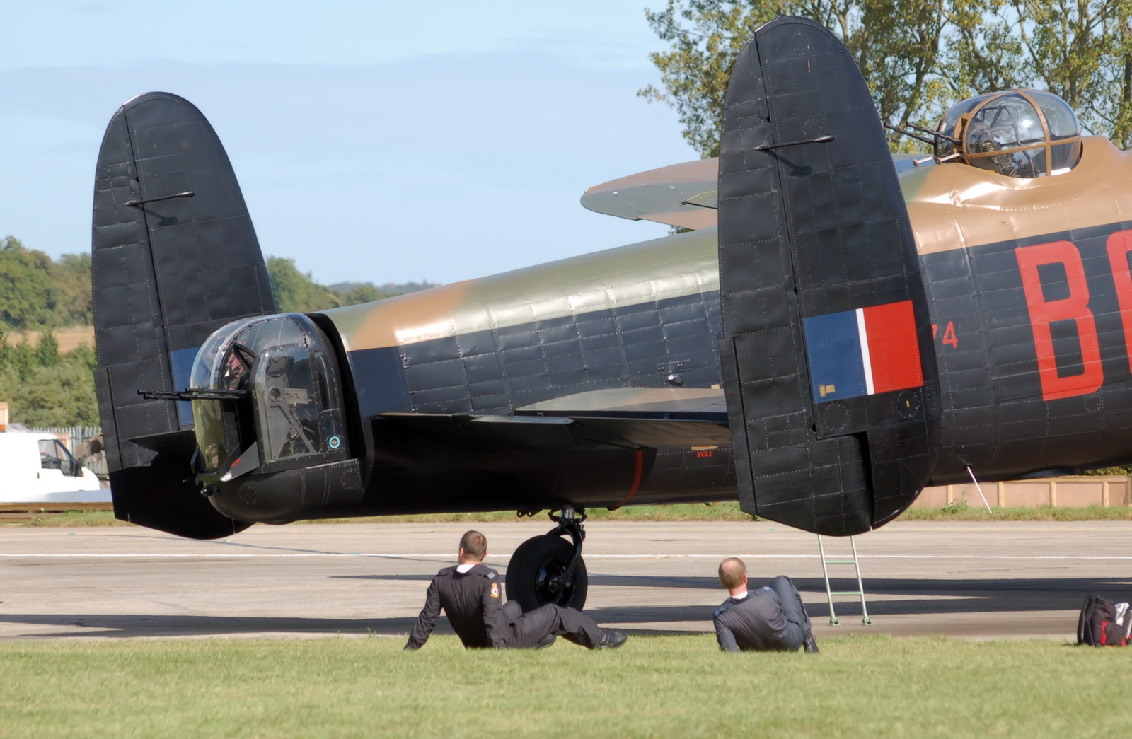 Two of the gun turrets of the Battle of Britain Memorial Flight Lancaster B1 bomber (PA474). The aircraft is waiting to display at Kemble Battle of Britain Weekend 2009, Cotswold Airport, Gloucestershire, England. The BBMF brochure for 2009 says “one of 7,377 Lancasters built. In the markings of No 550 squadron on one side (BQ-B) and No 100 squadron on the other (HW-R). Built in Chester, England, in mid-1945, too late to take part in World War 2.” The turret on the far left of the picture is the “tail” or “rear” position and the turret above the big red letter B is the “mid-upper” or “dorsal” position.